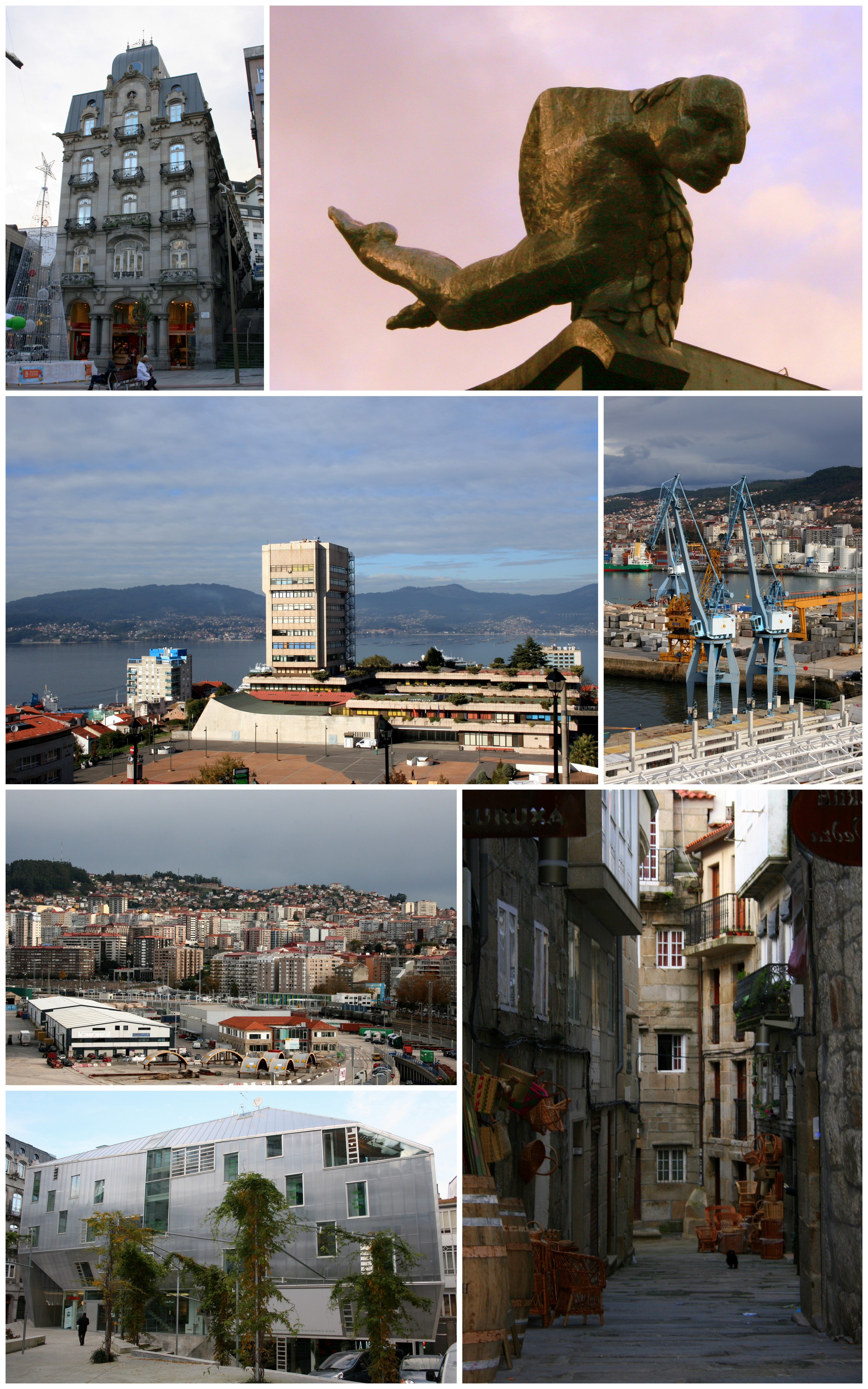 Collage of Vigo, Galicia (Spain).